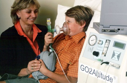 Intermittent Hypoxic Therapy session using go2altitude hypoxicator